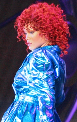 Rihanna Live at Target Center on her LOUD Tour.